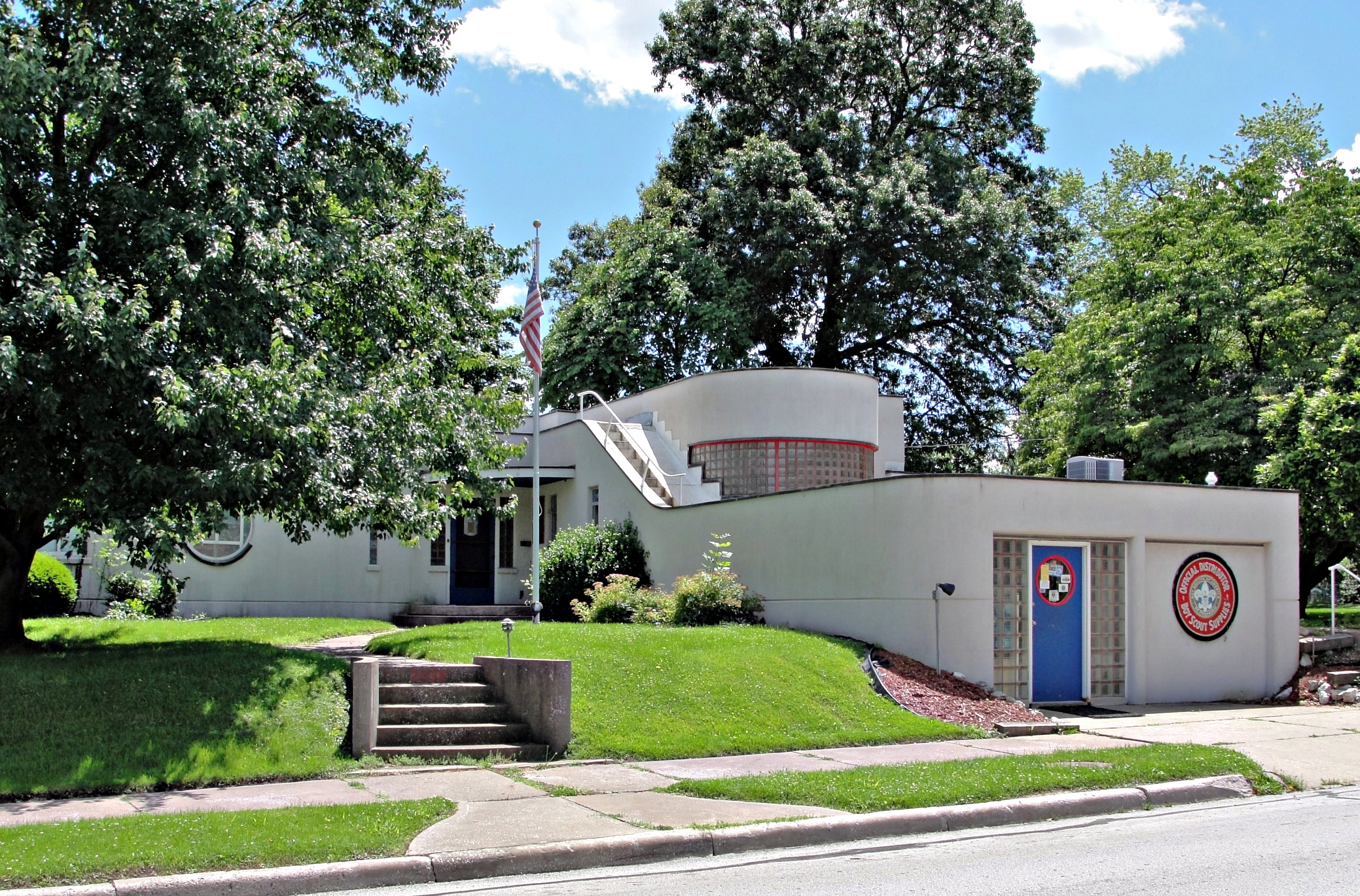 Gardner Memorial Boy Scout Service Center of the Mississippi Valley Council. Constructed as the Chatten House, circa 1940.